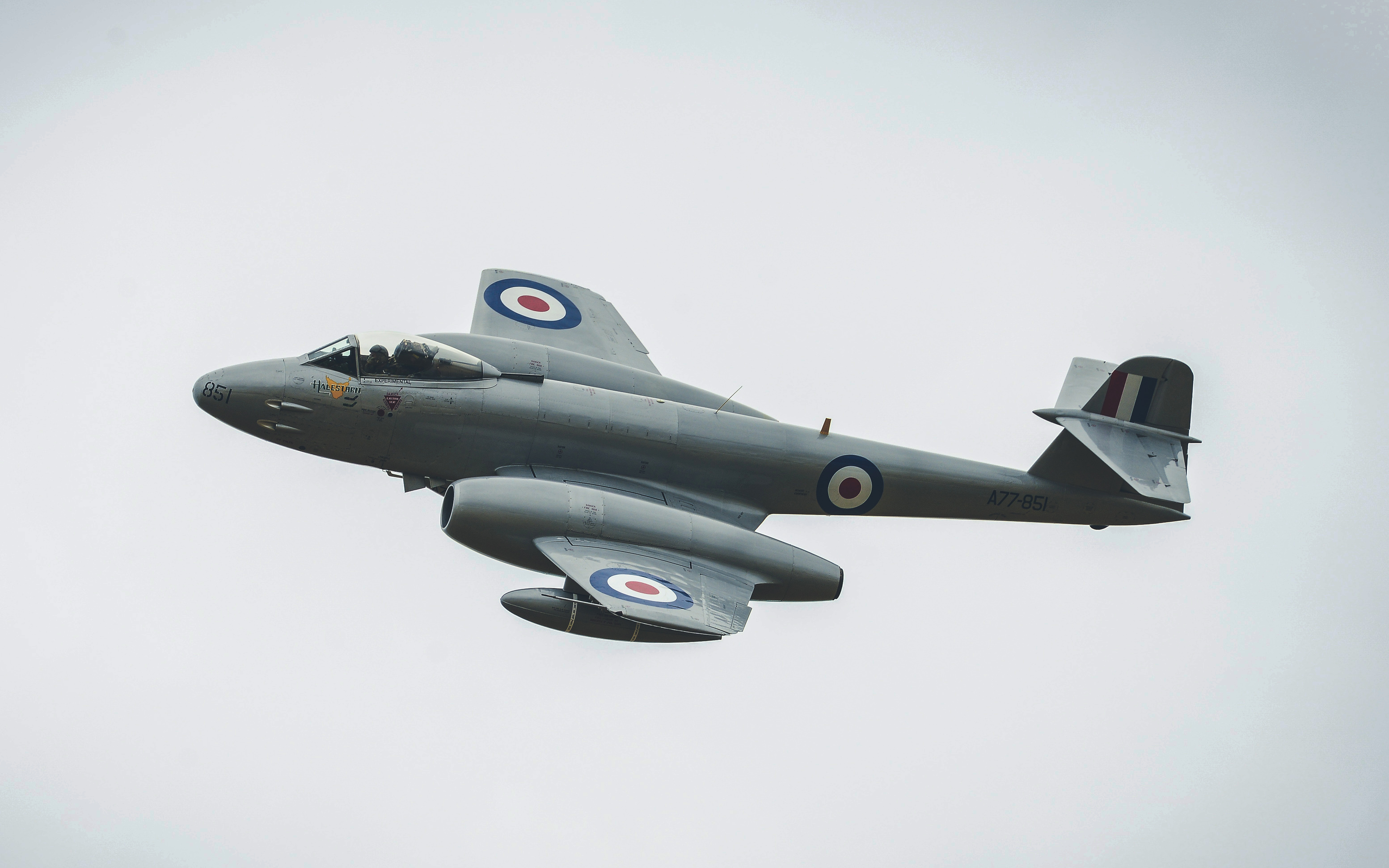 Centenary of Military Aviation 2014 Air Show (RAAF Williams, Point Cook)